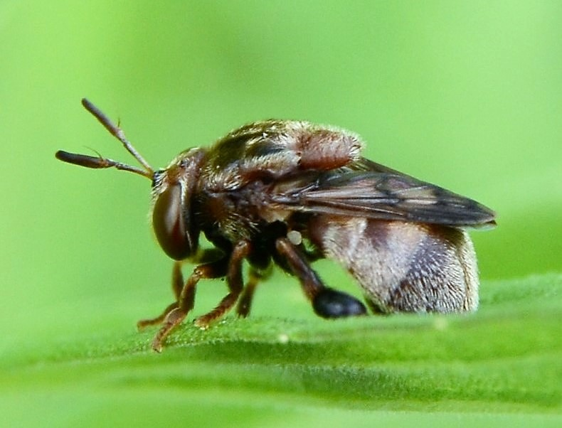 This was only the second iNaturalist observation of the genus Microdon in North American.